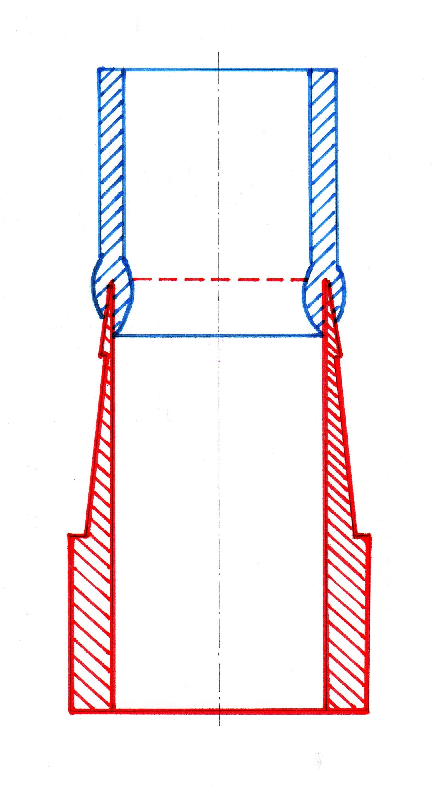 Knife-edge glass-to-metal seal